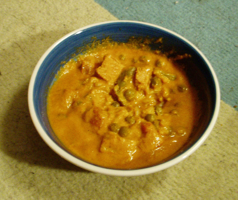 vegetable korma in cashew sauce